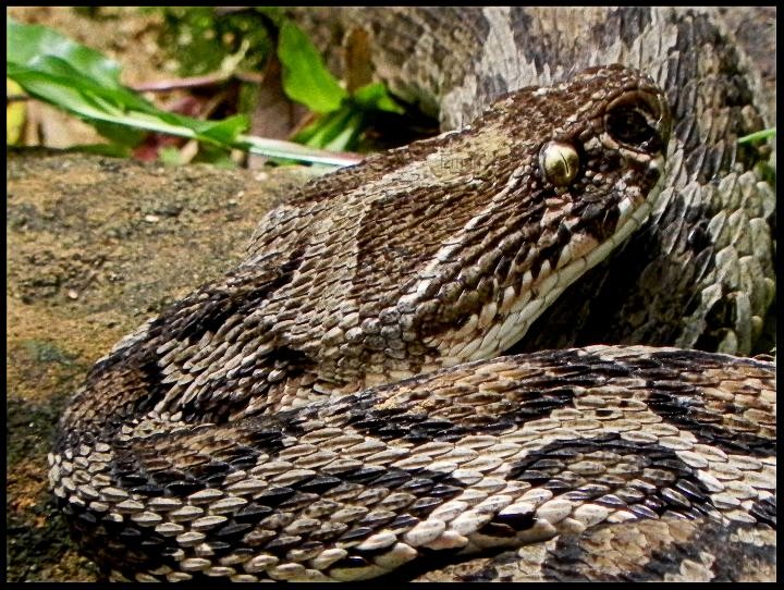 D. russelii in Bangalore, India